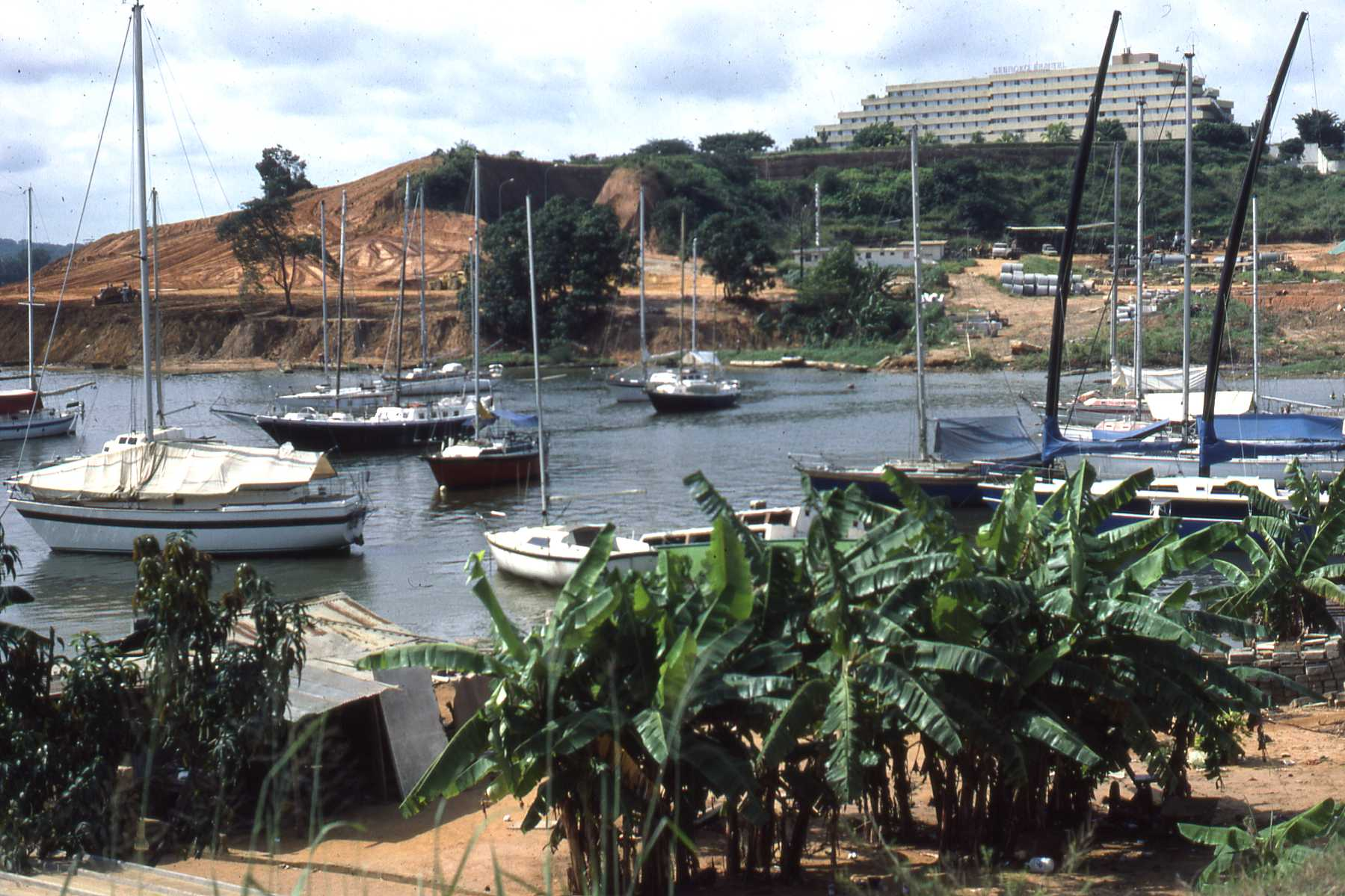 Ébrié Lagoon with fishing boats, in the Hotel Sebroko quarter, Abidjan, Côte d'Ivoire.